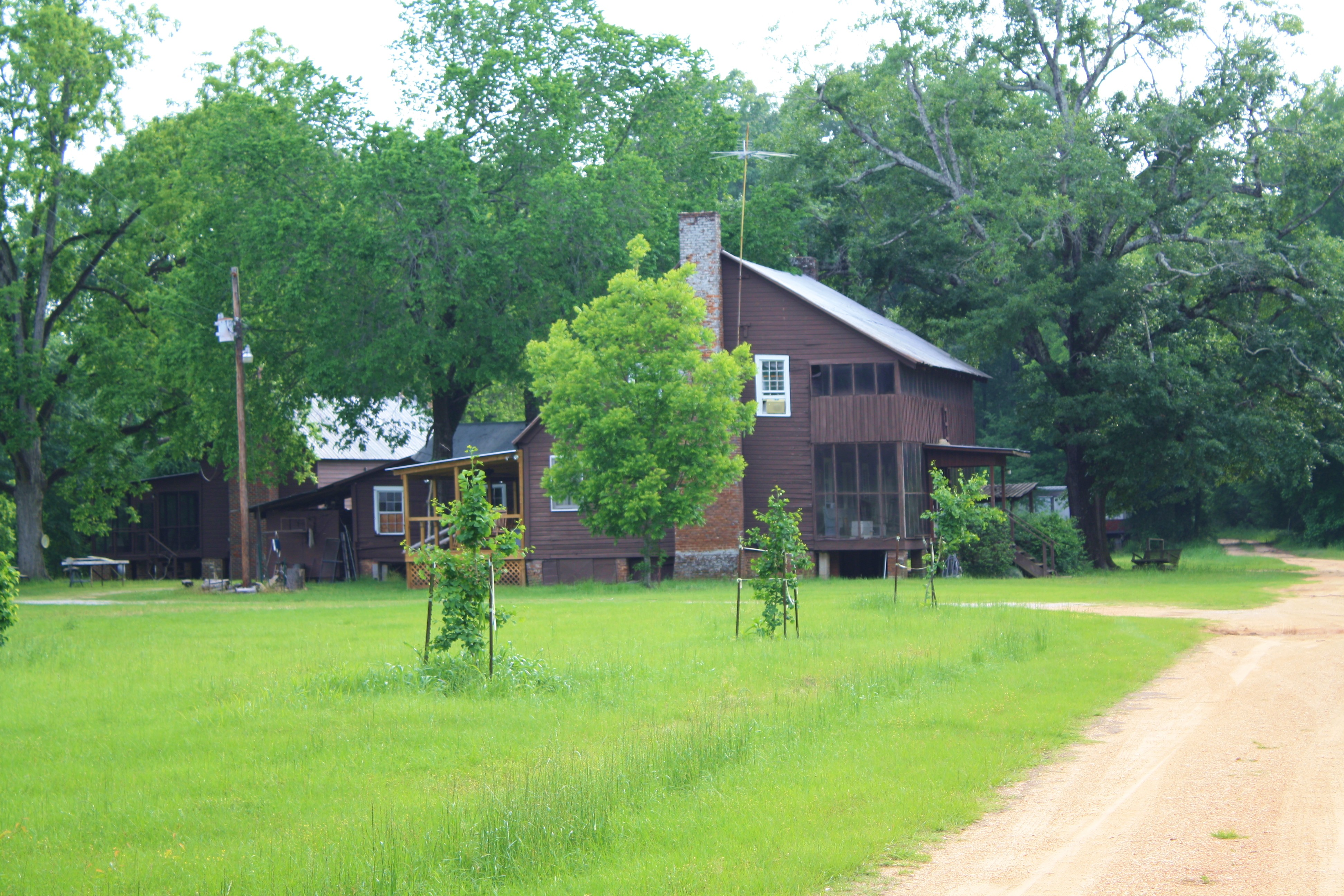 Main house at Millwood, Hale County, Alabama, built 1830. (Note: I took this using a zoom lens from the public dirt road that deadends into a very clearly marked "STOP: NO TRESPASSING" sign at the entrance gate to the private drive.)